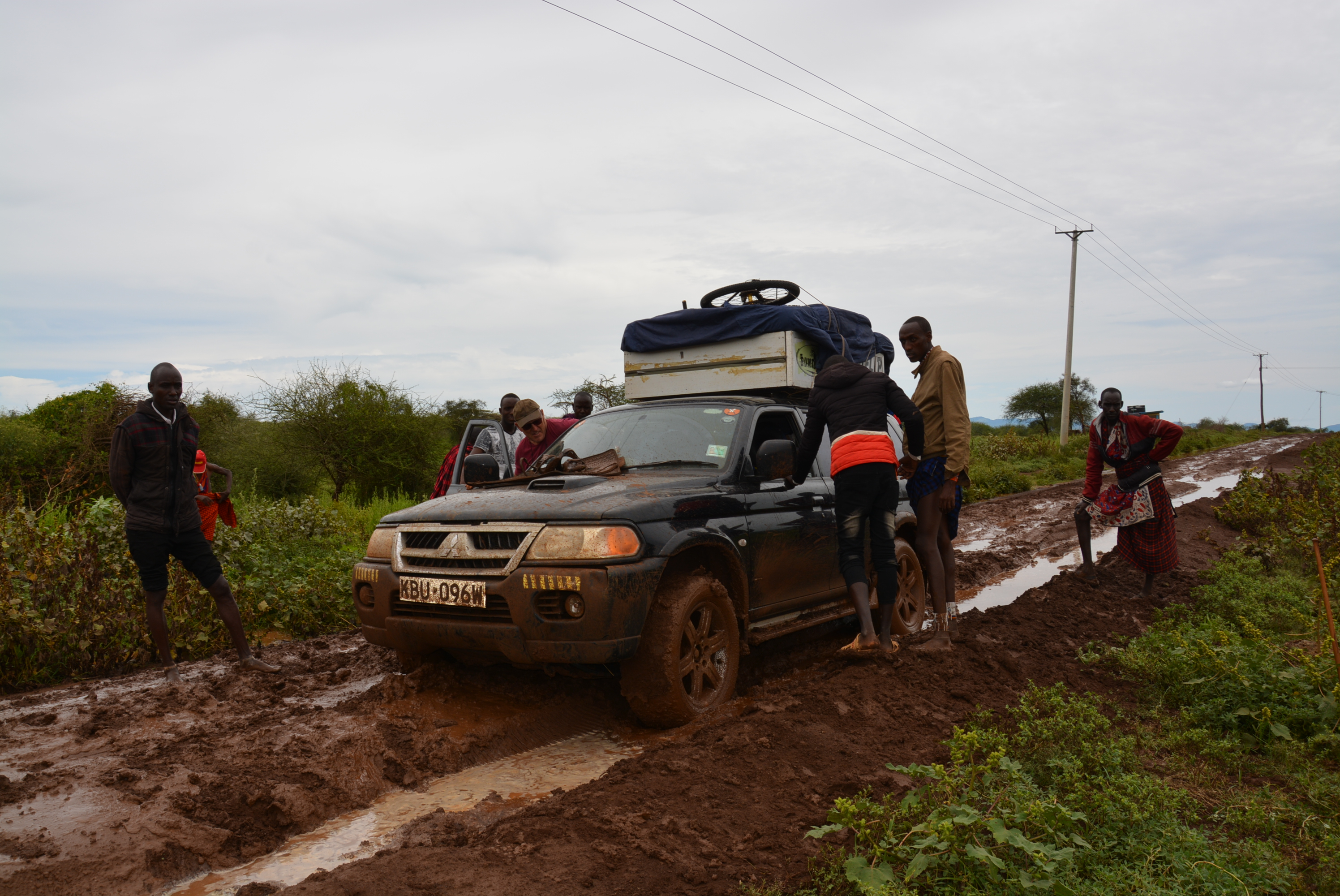 Travel in East Africa during the rainy season is challenging This is an image with the theme "Africa on the Move or Transport" from: Kenya